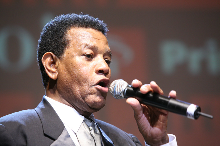 Jair Rodrigues during his presentation at the 5th edition of the award BRAVO! Prime de Cultura in 2009.